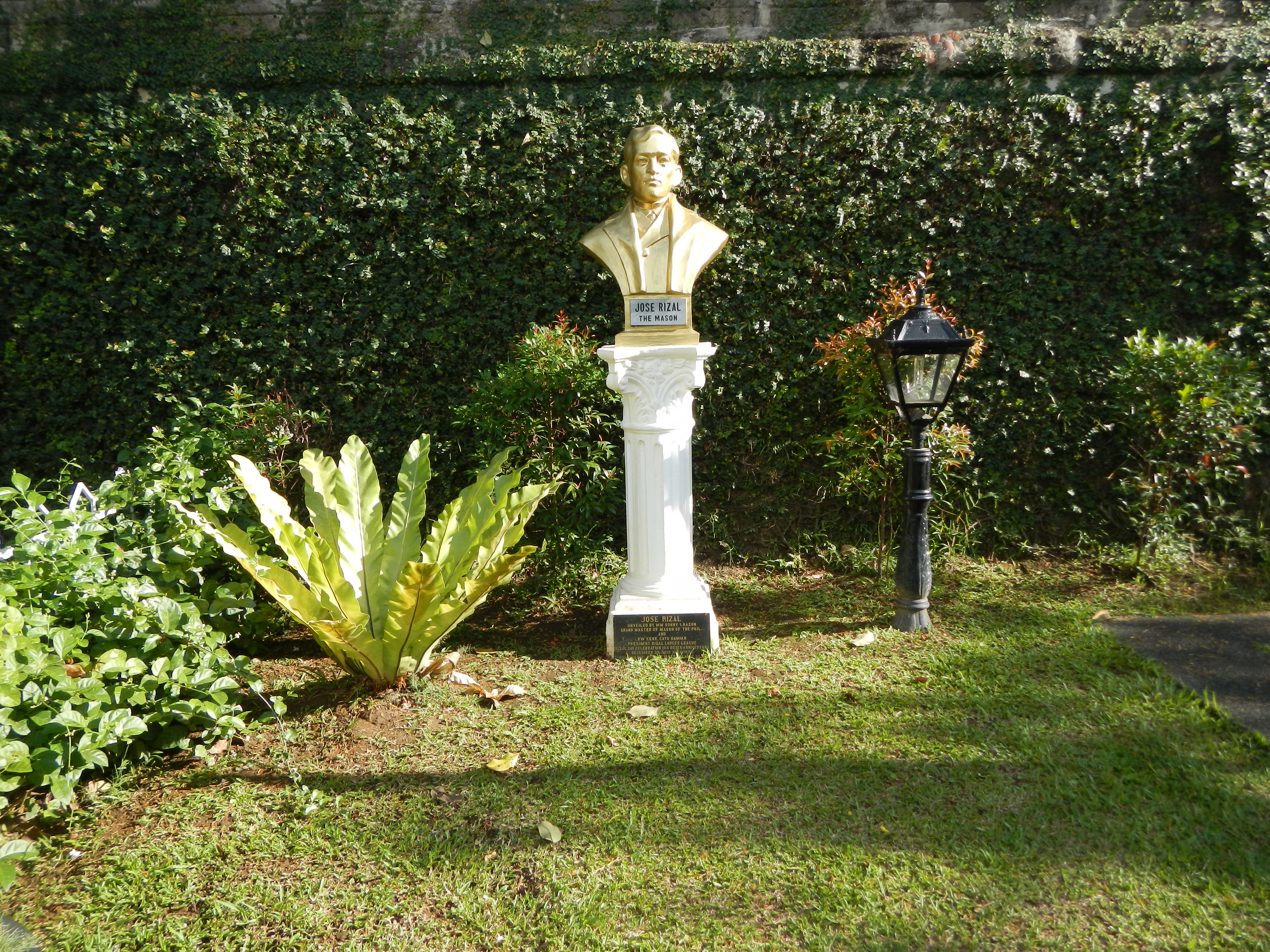 Paco Park[1] A serious cholera outbreak in 1820 led to the need for a municipal cemetery in Paco then known as San Fernando de Dilao. Paco Park is a 4,114.80 square meter recreational garden area and was once Manila’s municipal cemetery during the Spanish colonial period. It is located along General Luna St. and at the east end of Padre Faura Street in Paco district in the City of Manila, the Philippines. Paco Park was where the remains of Philippine National Hero, Jose P. Rizal, was interred after his execution on December 30, 1896. His body rested here from 1896 to 1912. His remains were then moved to its current location at Rizal Park.[2] Coordinates: 14°34'52"N 120°59'19"E Paco's Saint Pancratius Chapel, a small circular chapel, it the site of many quiet weddings. [3] [4]Paco Park Presents Paco Park [5]It is located along General Luna St. and at the east end of Padre Faura Street in Paco district in the City of Manila, the Philippines. [6]German embassy sponsors free Paco Park shows 01/21/2010 [7]Current and choice at CCP and Paco Park Philippine-German Month Concerts at Paco Park, Manila[8]More lights for Paco, Rizal parks[9]